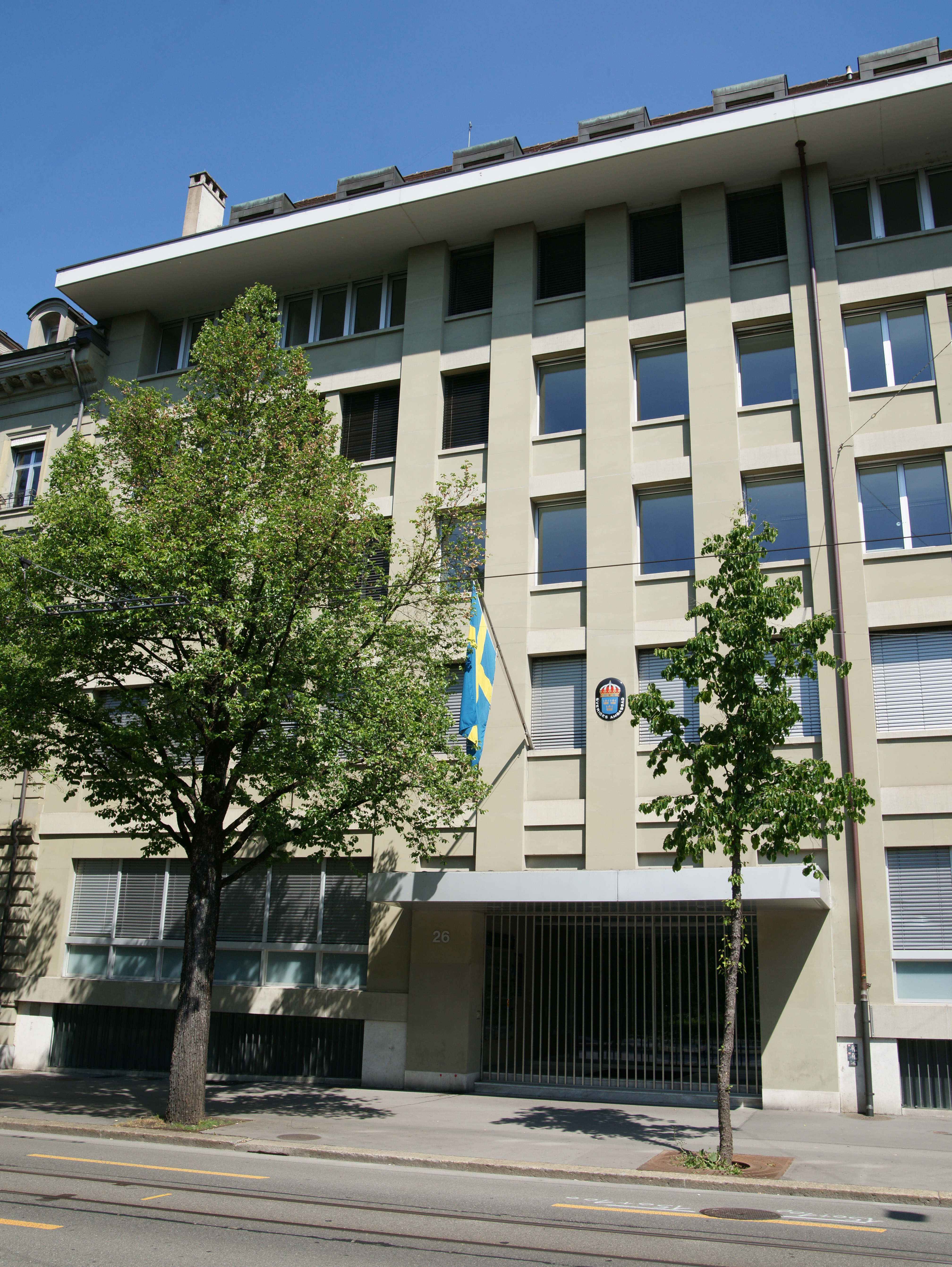 Embassy of Sweden on Bundesgasse 26, Bern, Switzerland.